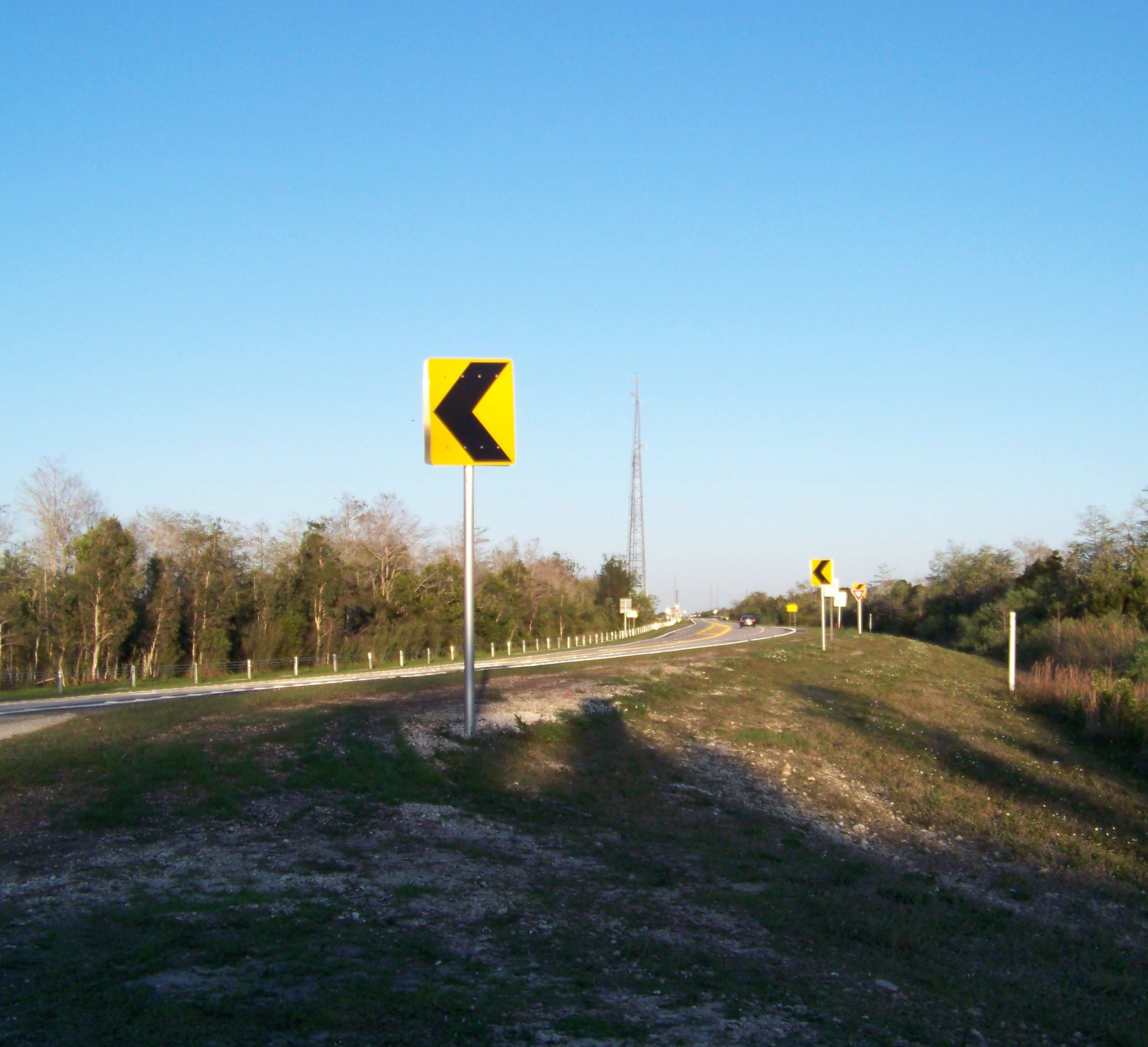 Fortymile Bend, Florida